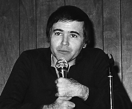 Walter Koenig participating in a panel discussion at a science fiction convention.